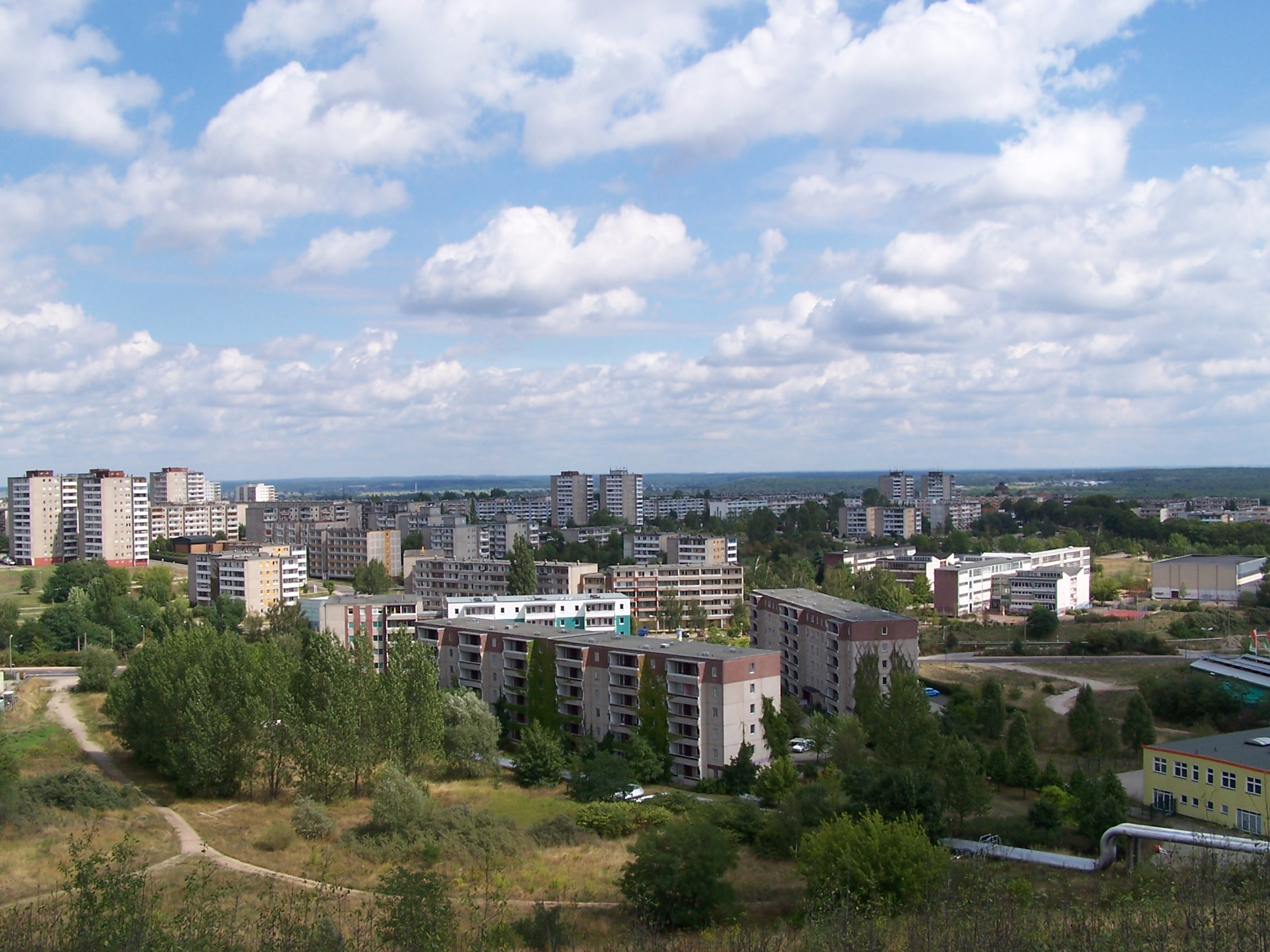 Frankfurt (ODer), Germany. View of Neuberesinchen borrough.